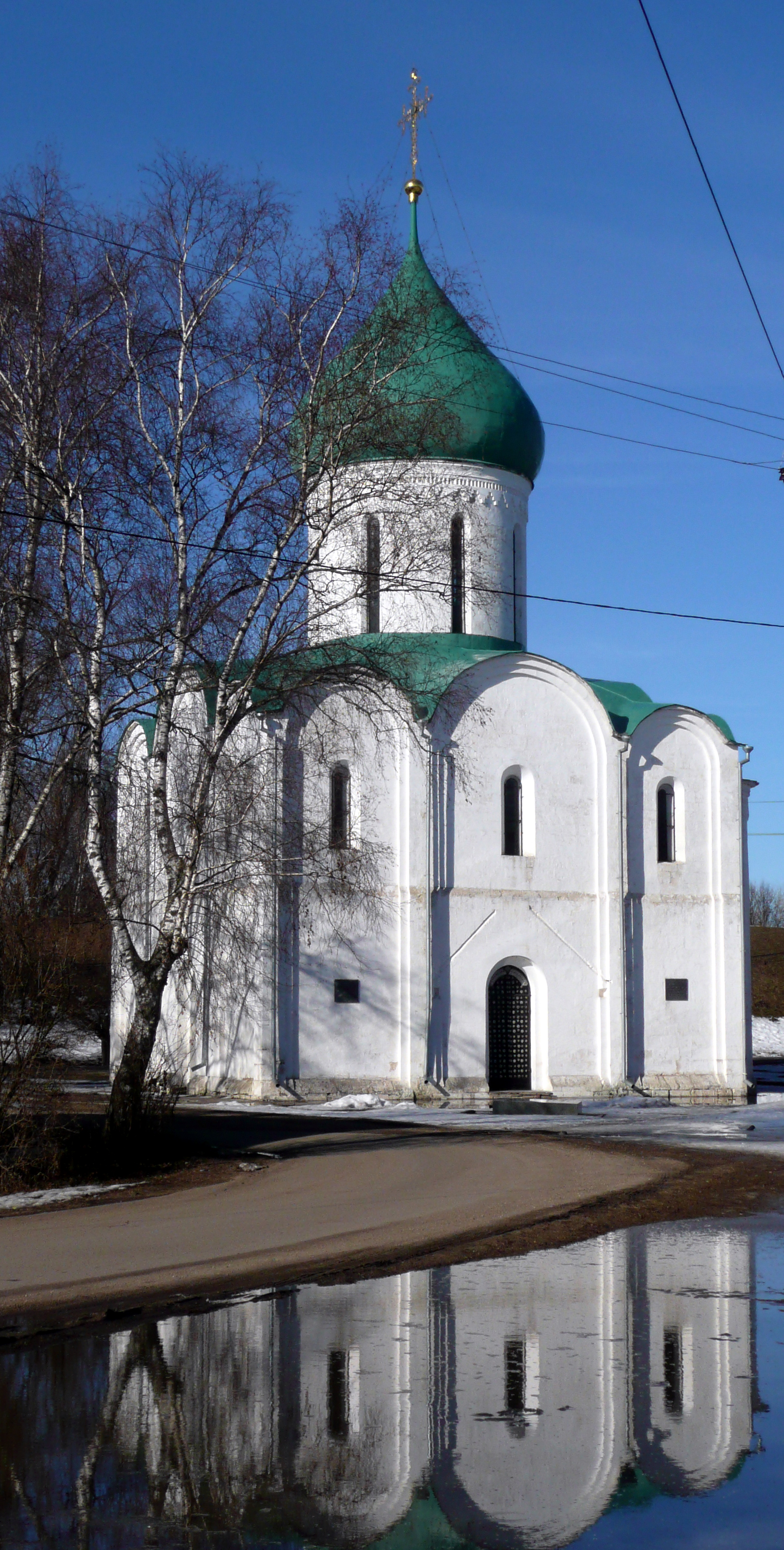 The Cathedral of the Saviour in Pereslavl